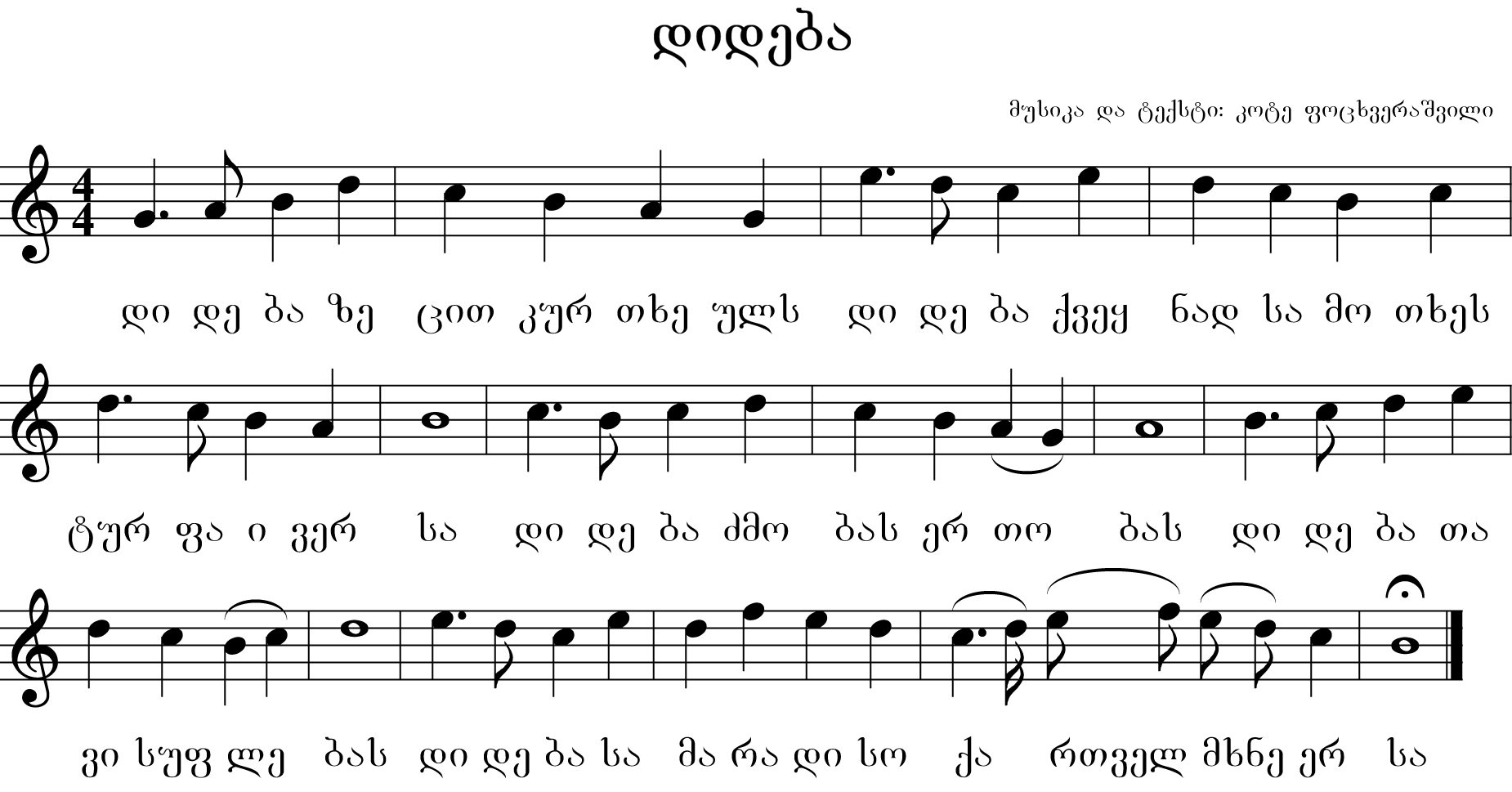 National anthem of Georgia from 1918 to 1920, and from 14 November 1990 to 23 April 2004, composed by Kote Potskhverashvili (1889-1959).